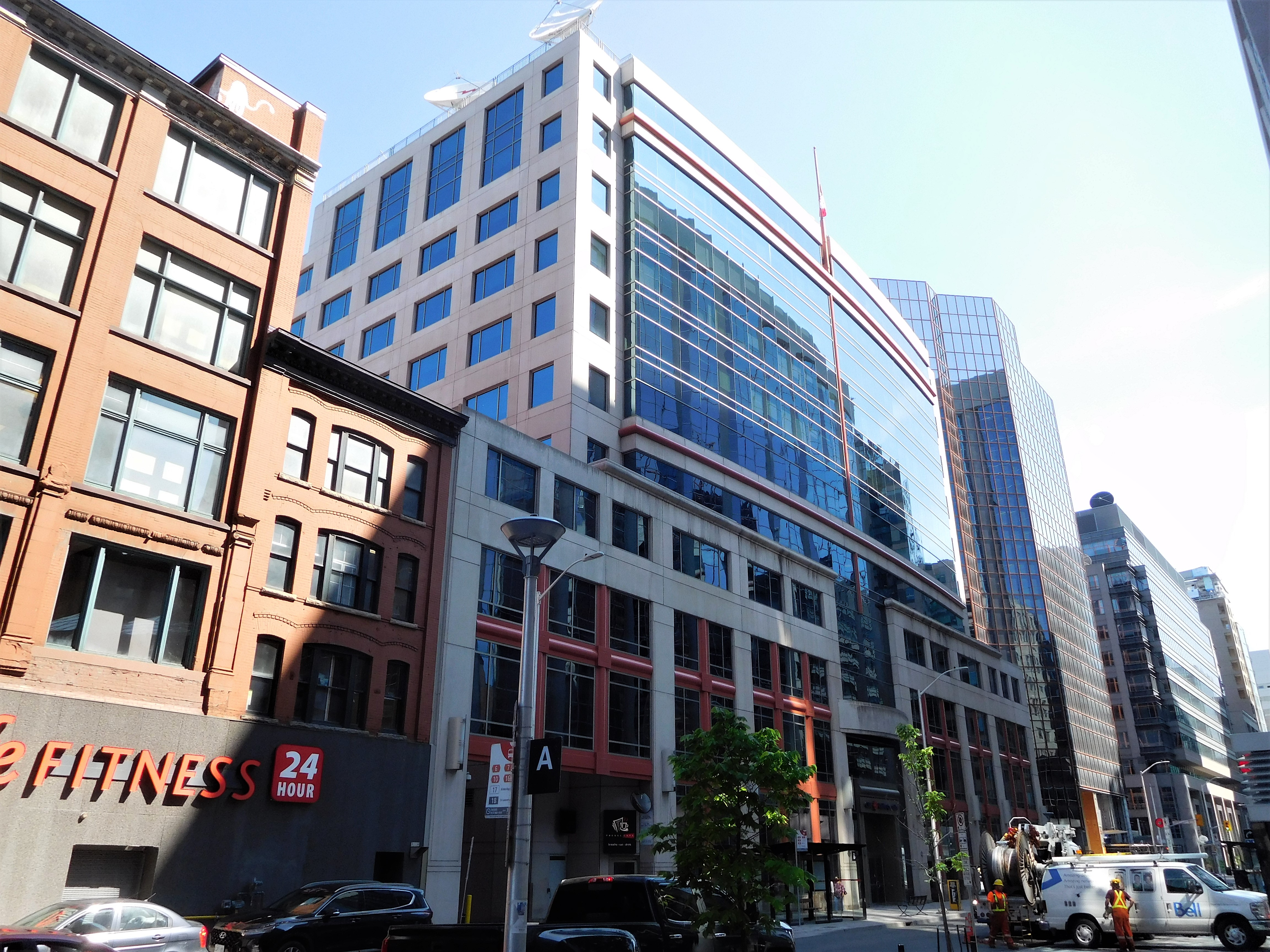 CBC Ottawa Broadcast Centre, 181 Queen Street, Ottawa